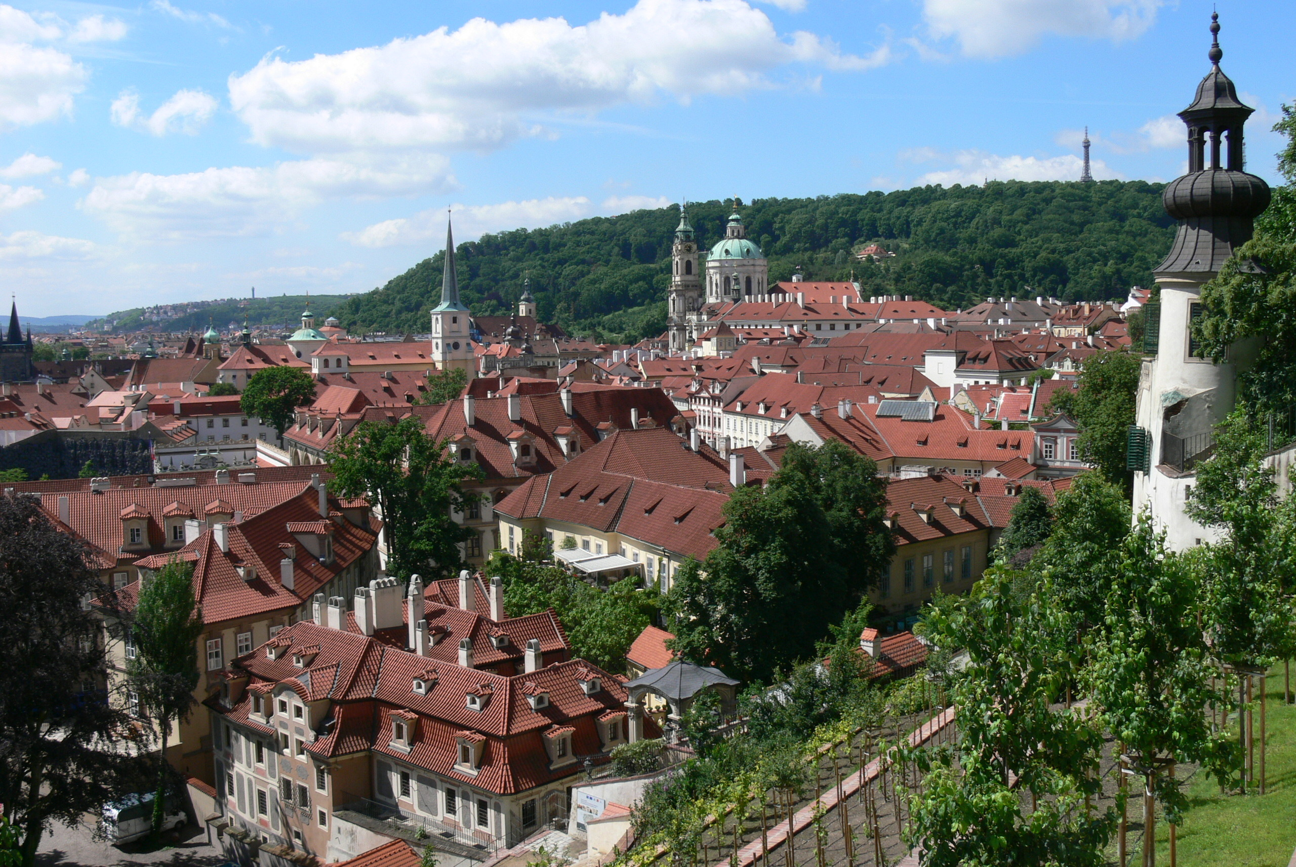 Prague castle. View to Mala Strana.